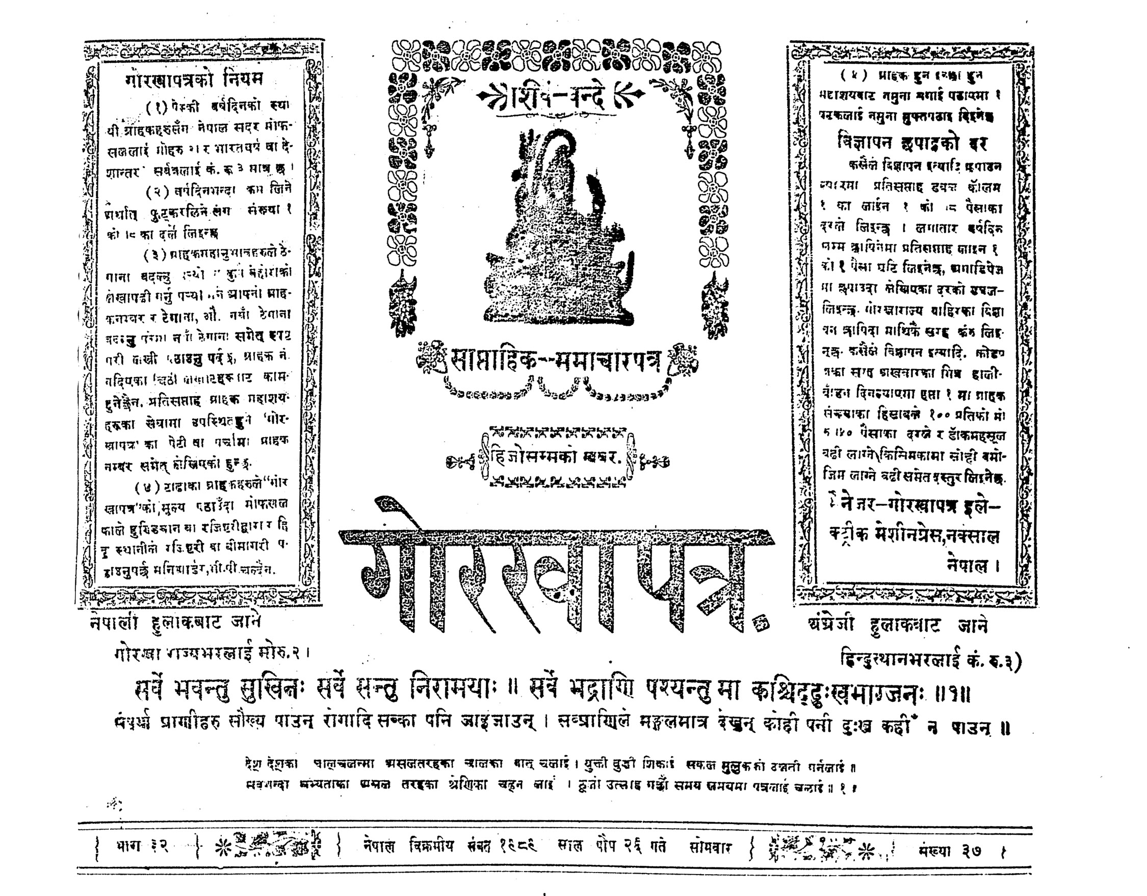 Masthead of Gorkhapatra newspaper dated January 9, 1933.